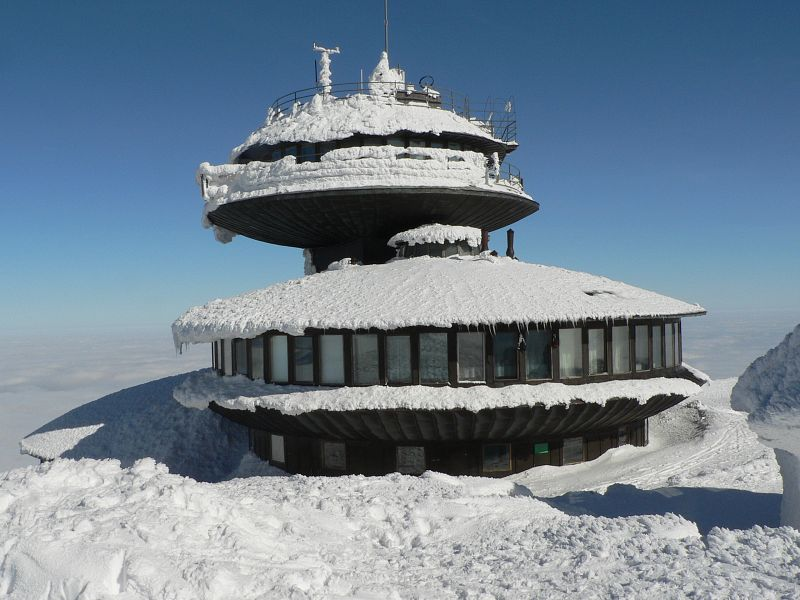 Śnieżka meteo observatory, Krkonoše, Poland